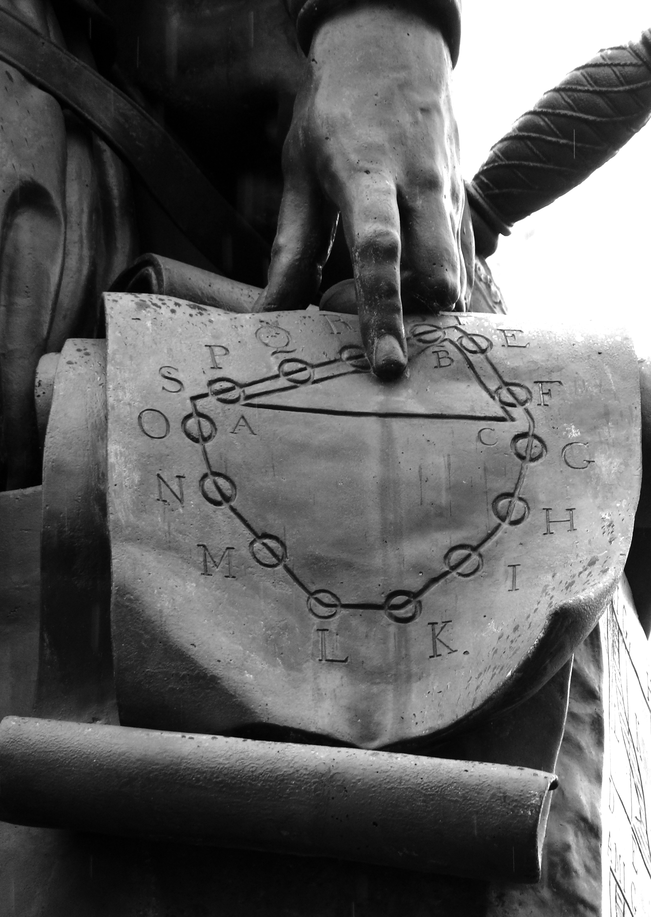 Statue of Simon Stevin at the Simon Stevinplein in Bruges -- detail. The statue was erected in 1847. Simon Stevin (1548/49 – 1620) was a Flemish mathematician and engineer. He was active in a great many areas of science and engineering, both theoretical and practical. He emigrated to Holland in 1581 and became tutor to Prince Maurice at about 1590. Stevin proved the law of the equilibrium on an inclined plane, using an ingenious and intuitive diagram, called clootcrans, showing a rope containing evenly spaced beads draped over an inclined plane.